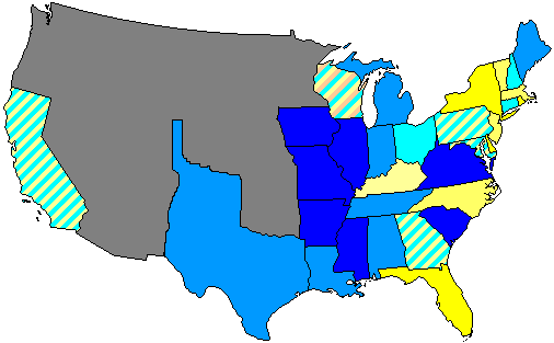 Summary of party control of U.S. house seats in the 31st United States Congress following election. Stripes indicate a tie between two or more parties. Legend: 80.1-100% Democratic seat majority 60.1-80% Democratic seat majority 60% or less Democratic seat plurality 60% or less Whig seat plurality 60.1-80% Whig seat majority 80.1-100% Whig seat majority 60% or less Free Soil seat plurality